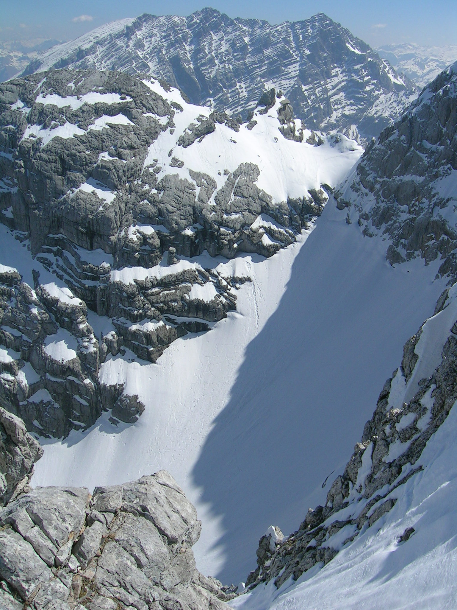 Blaueis glacier and Blaueis peak with Watzmann westface in the back